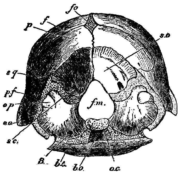 Here the opisthotic bone appears in the occipital region, as in the adult Chelonian. (After W. K. Parker.) bo = Basi-occipital, bt = Basi-temporal, eo = Opisthotic, f = Frontal, fm = Foramen magnum, fo = Fontanella, oc = Occipital condyle, op = Opisthotic, p = Parietal, pf = Post-frontal, sc = Sinus canal in supra-occipital, so = Supra-occpital, sq = Squamosal, 8 = Exit of vagus nerve. Cleaned version of scanned EB image taken from